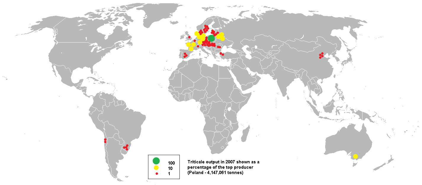 This bubble map shows the global distribution of triticale output in 2007 as a percentage of the top producer (Poland - 4,147,061 tonnes). This map is consistent with incomplete set of data too as long as the top producer is known. It resolves the accessibility issues faced by colour-coded maps that may not be properly rendered in old computer screens. Data was extracted on 1st August 2009 from Based on :Image:BlankMap-World.png